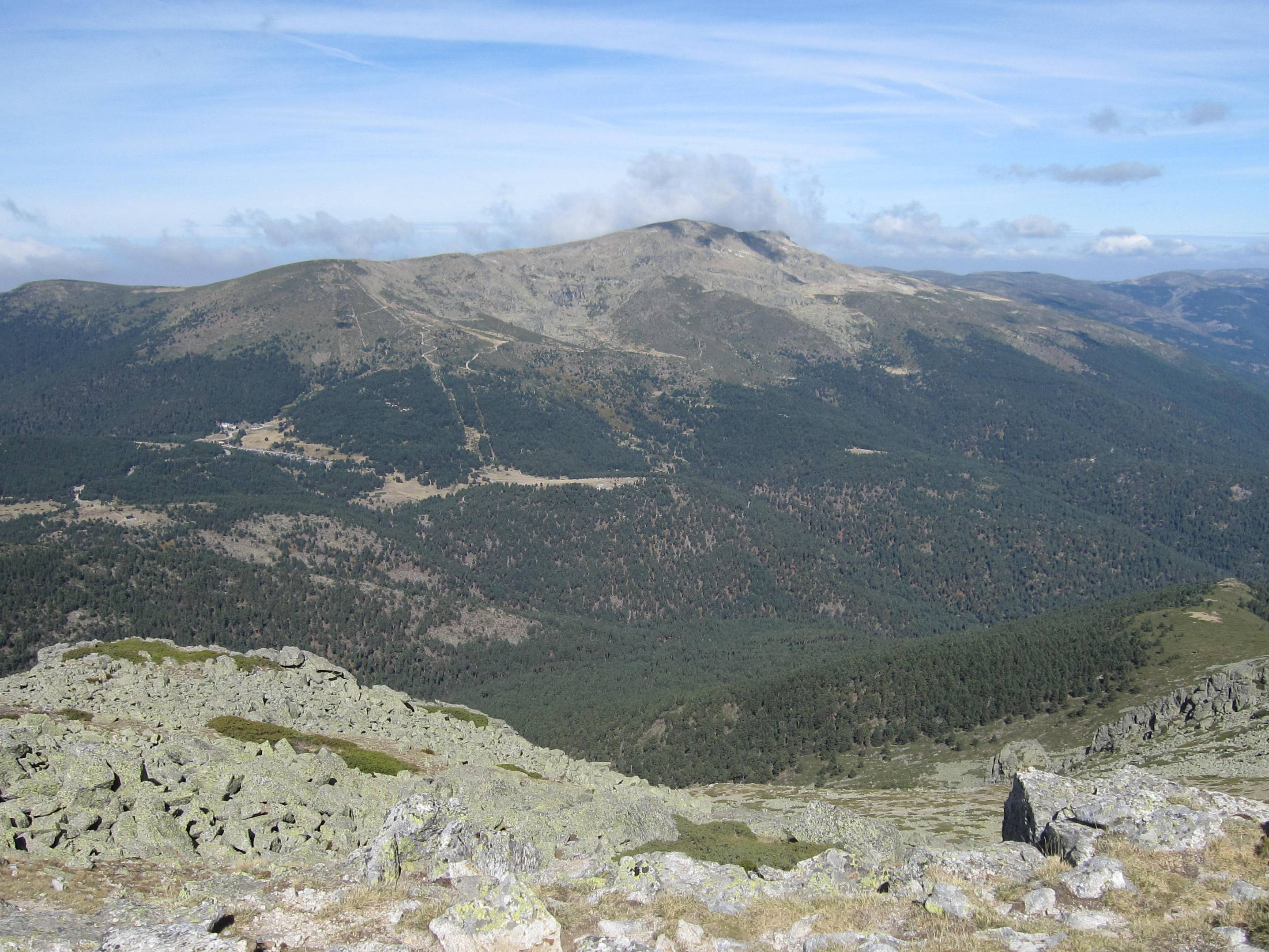 East side of Peñalara massif seen from Cabeza de Hierro Menor (Guadarrama mountain range, central Spain).